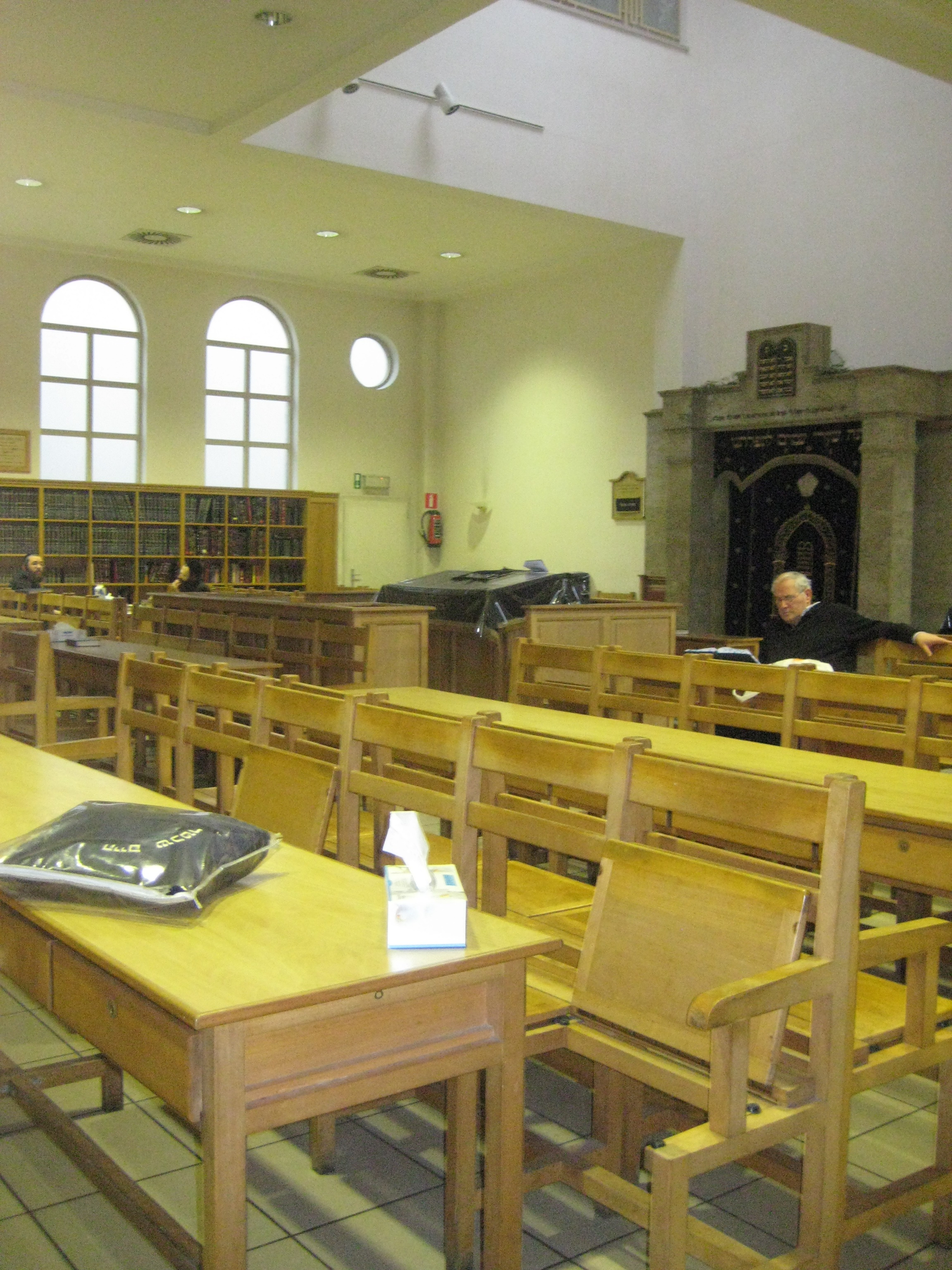 Chortkov-synagoog in Antwerpen.